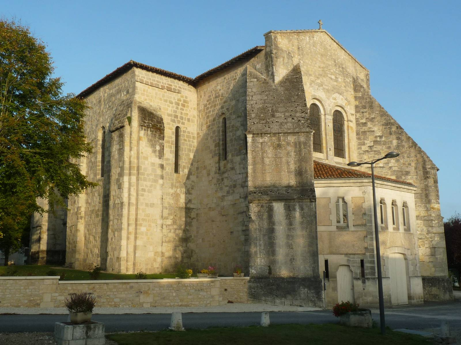 church of Condéon, Charente, SW France